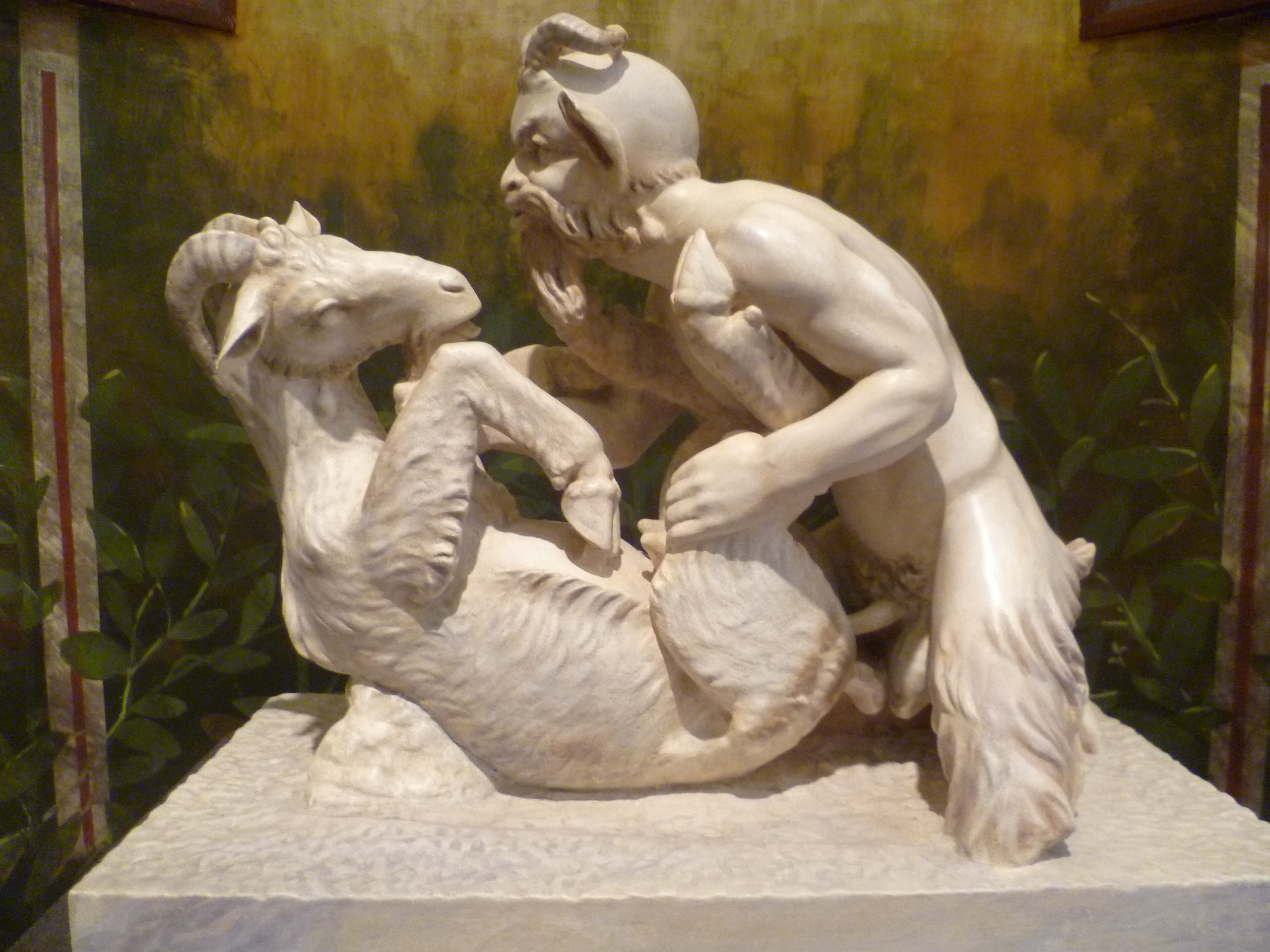 One of the objects in the collection of the National Archaeological Museum in Naples